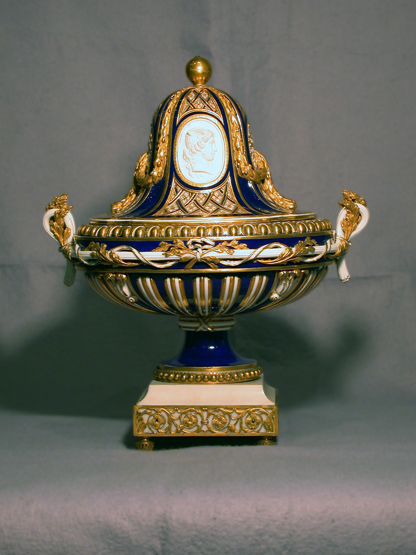 Unglazed medallions of the Latin god of commerce, Mercury, give these vases their name. On the reverse are medallions of Medusa and Julia, daughter of Emperor Titus, based on ancient carved gems formerly in the collection of Baron Philippe von Stosch. A similar pair of vases, dated 1767, in the Royal Collection of England, bear images of Louis XV and the Empress Marie-Therèse.